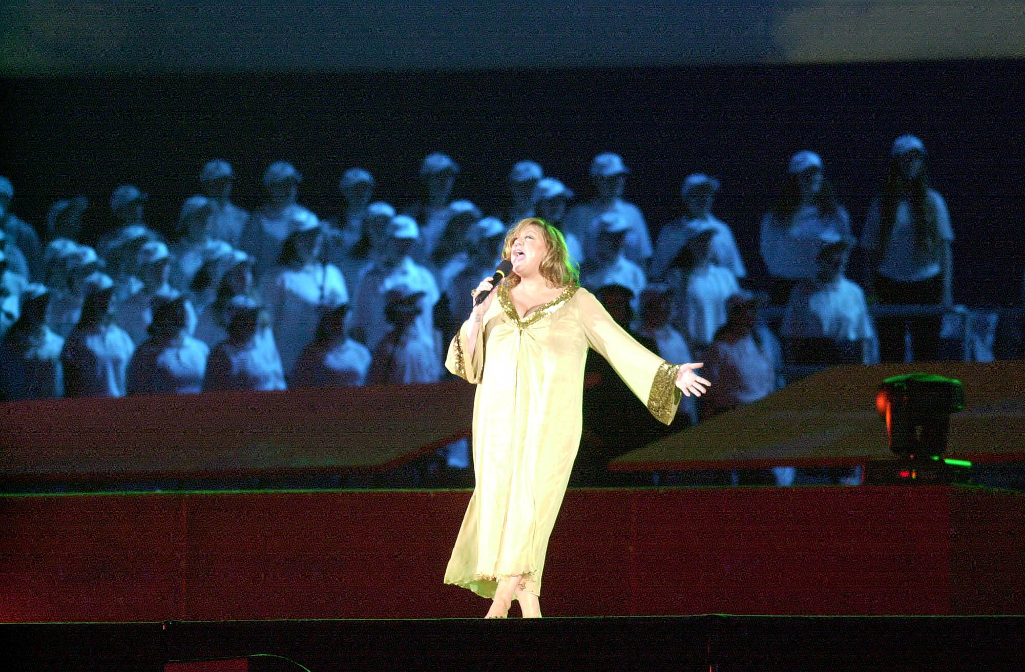 Australian singer Renee Geyer performing with a choir behind her at the Sydney Paralympic Games Opening Ceremony